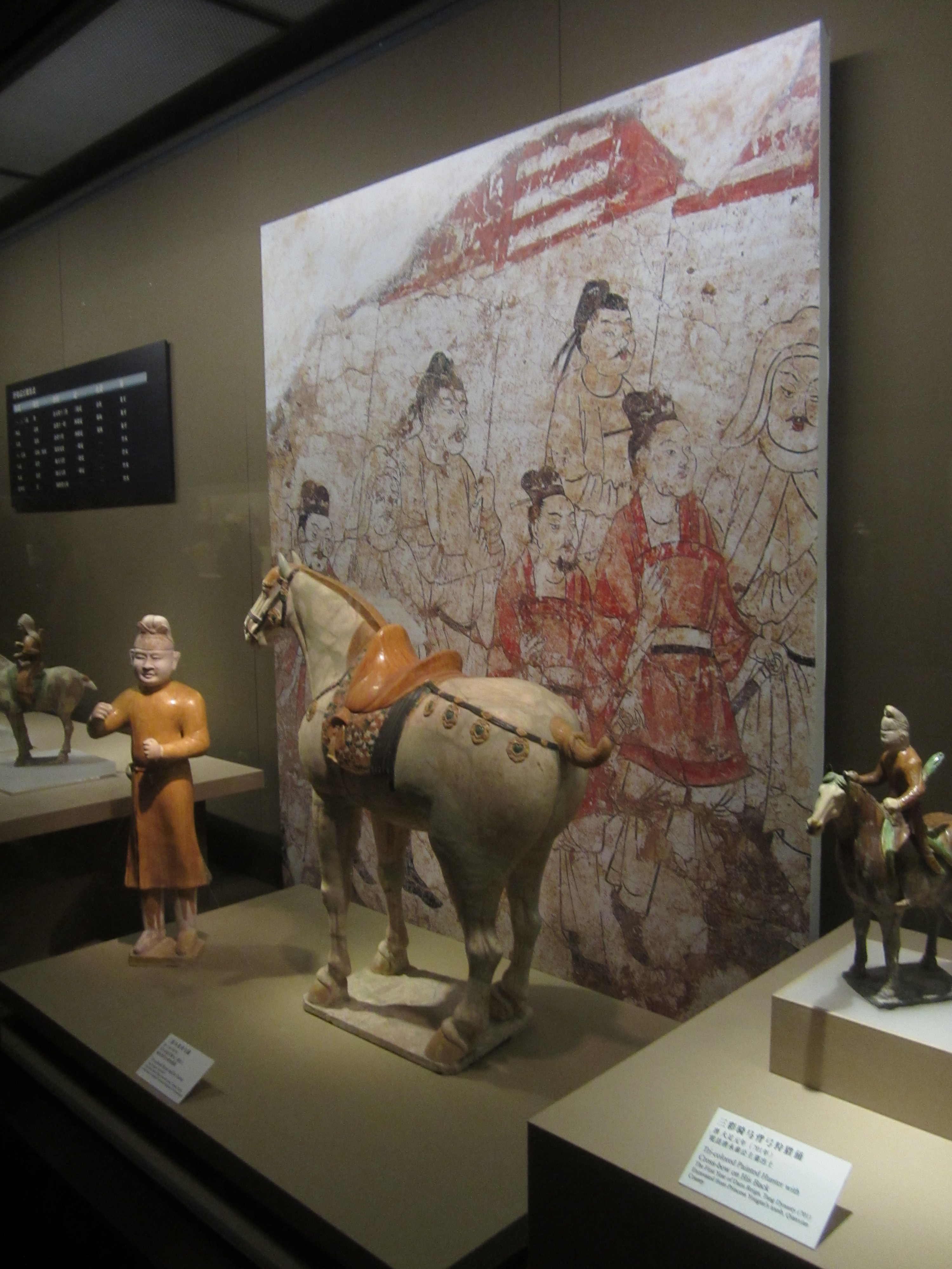 Tangsancai collection of Shaanxi History Museum. This collection is made in Tang Dynasty, which dates back to 1300 years ago.